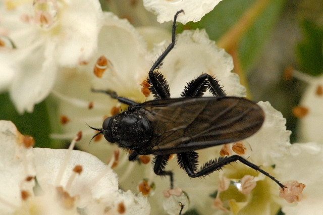 Empis ciliata from Commanster, Belgian High Ardennes .